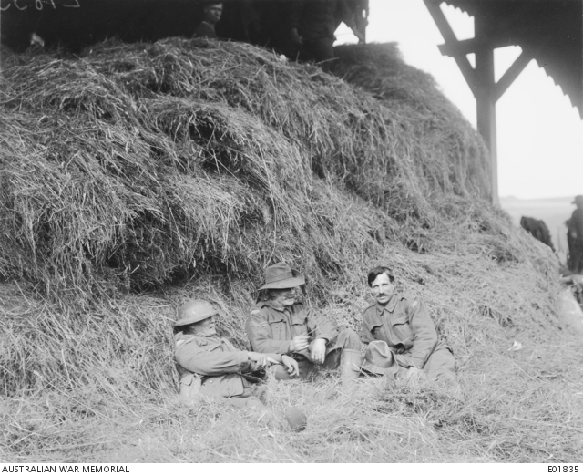 Australian soldiers from the 44th Battalion rest near Bonnay, France, following fighting in April during the German Spring Offensive